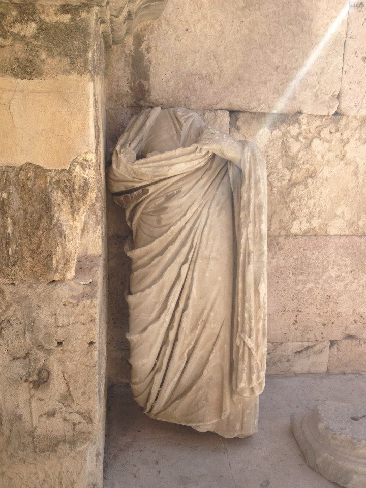 تمثال روماني ناقص